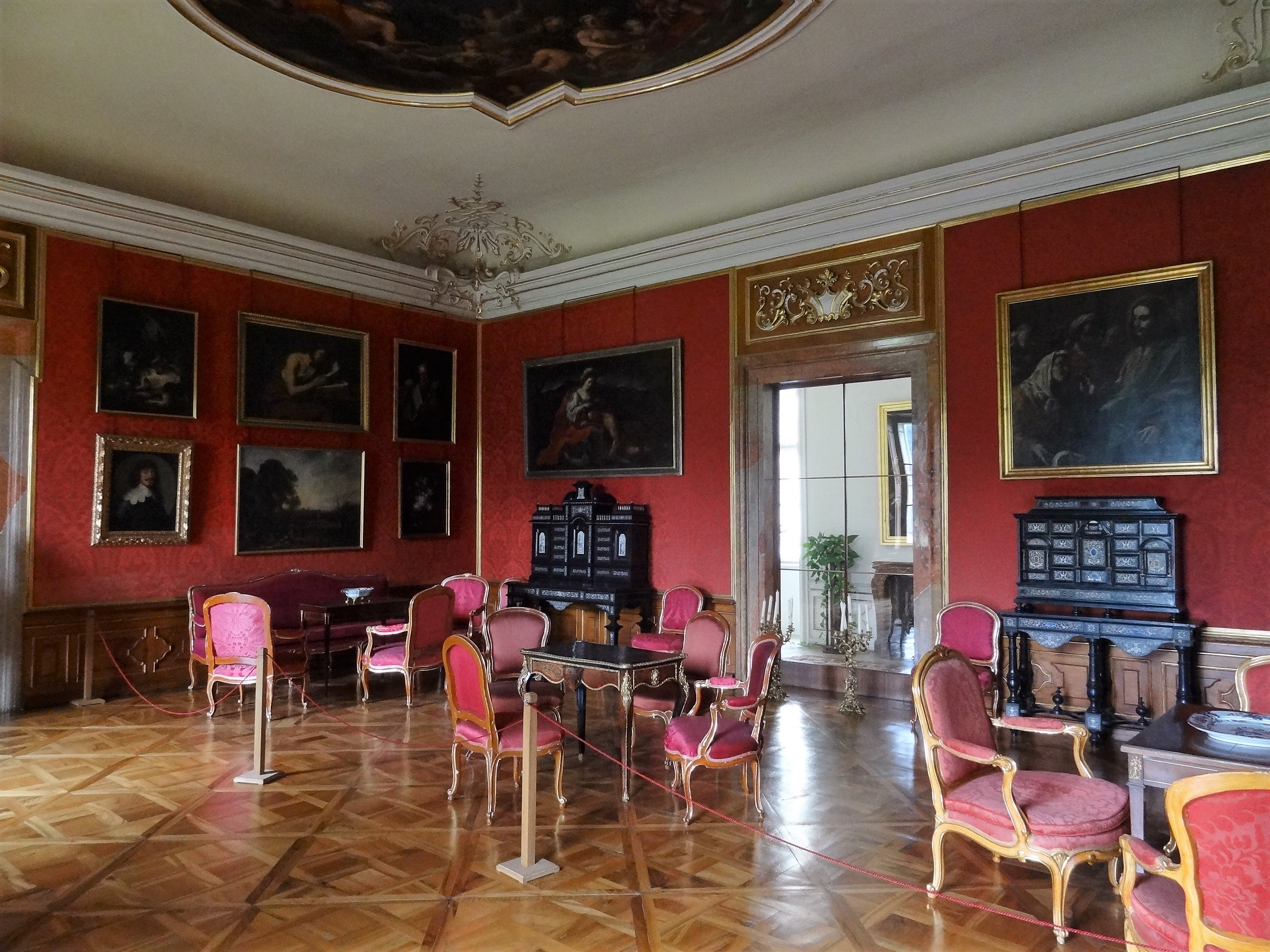 Castle Valtice interior